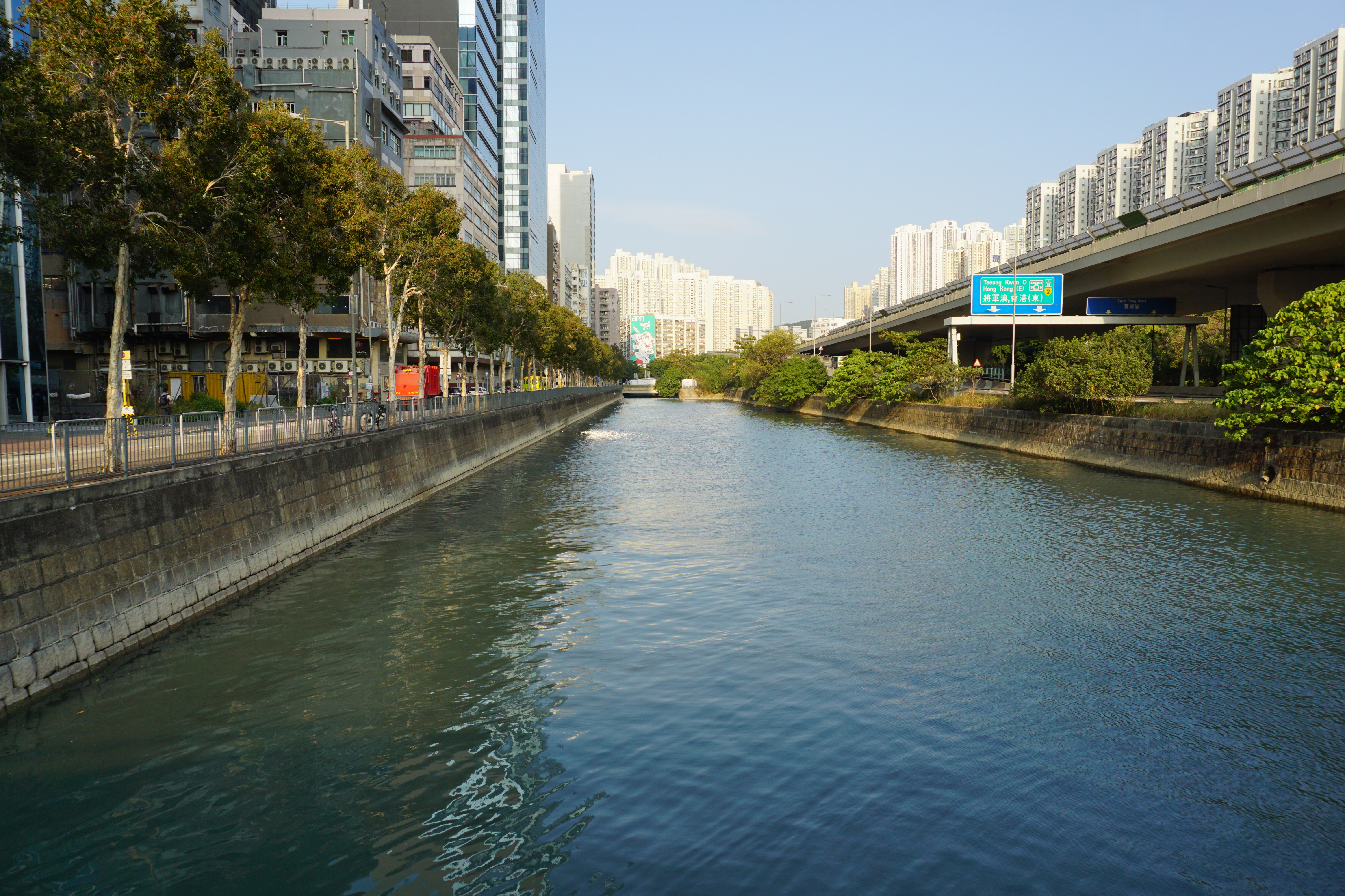 Nullah in Kwun Tong, Hong Kong.